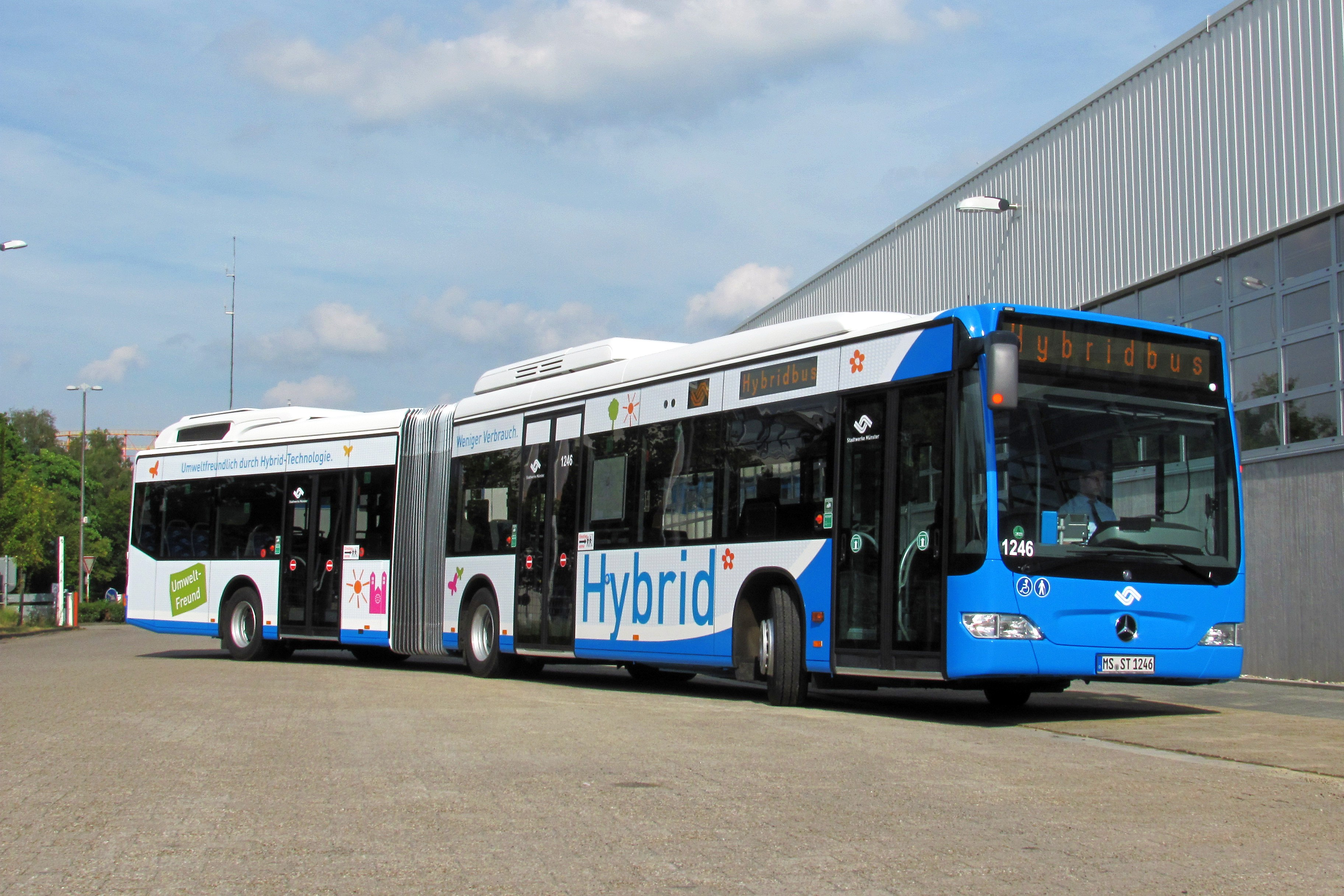 Mercedes-Benz Citaro G BlueTec Hybrid bus (#1246, reg. MS-ST 1246) in Münster, Germany. Built 2012, Stadtwerke Münster GmbH operator.